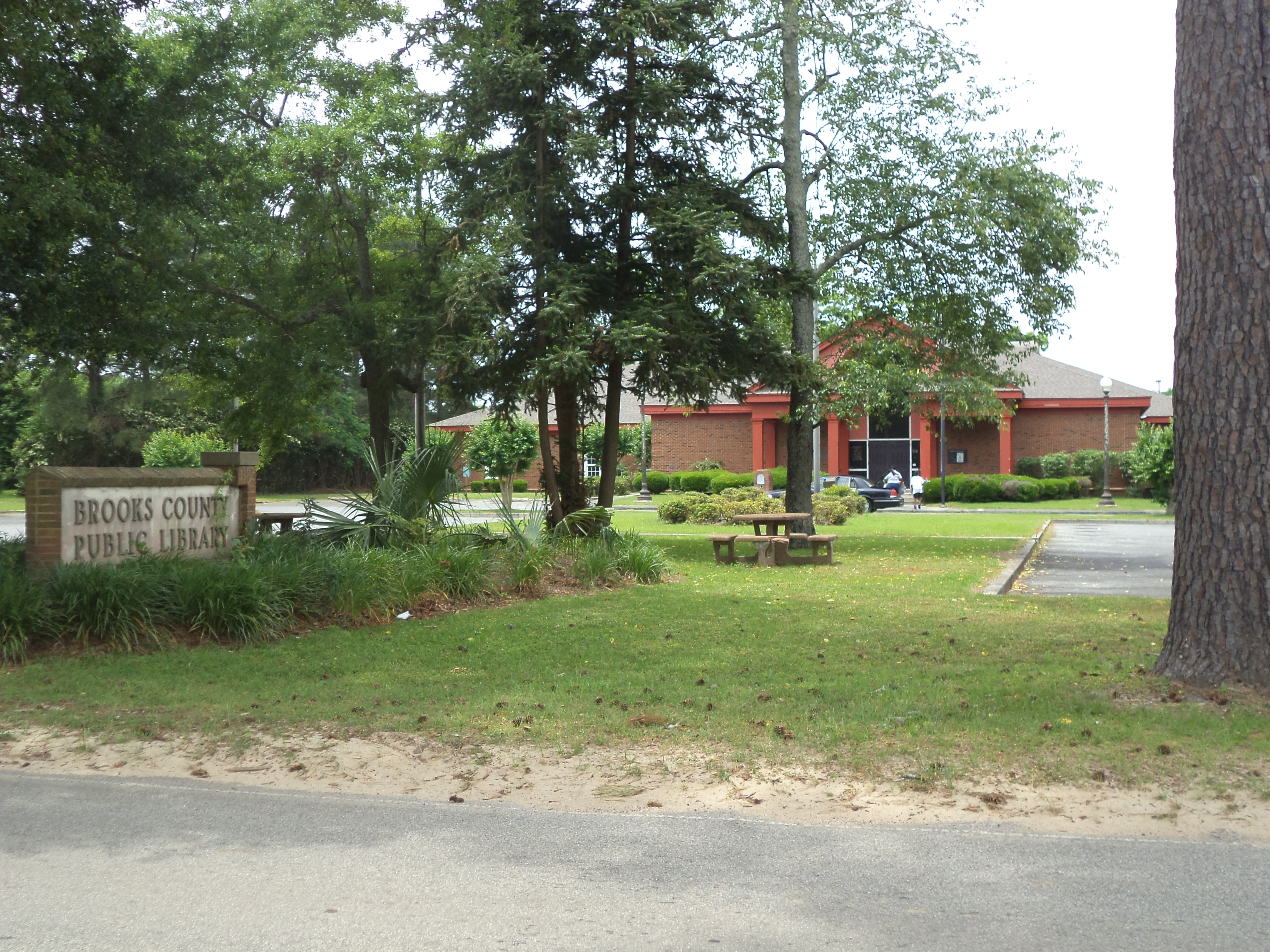 Brooks County Public Library, 404 Barwick Rd., Quitman, Brooks County, Georgia